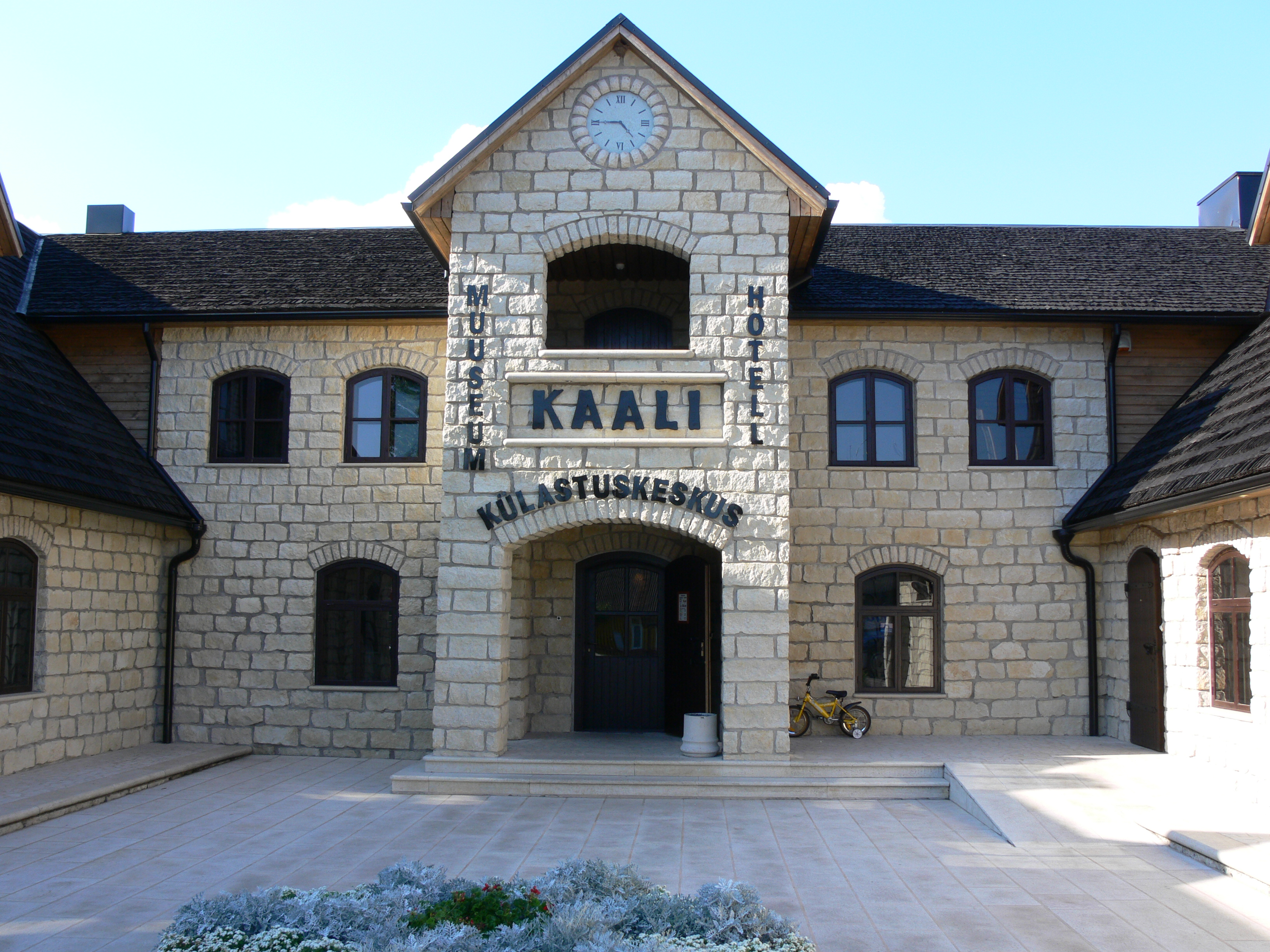 Meteor museum and hotel in Kaali, Estonia